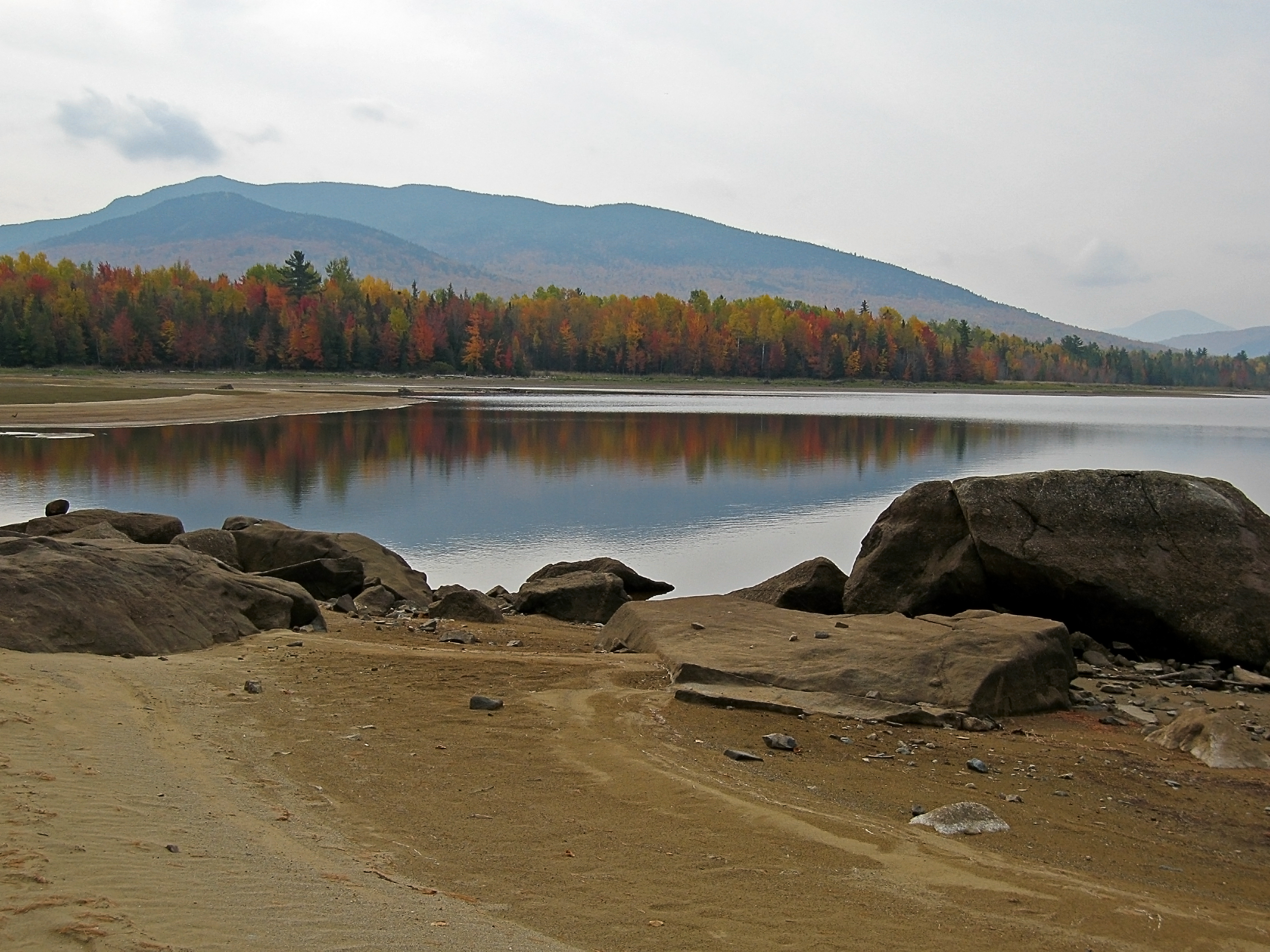 Yet another view of Flagstaff Lake, this one from Smoky's Beach, with Bigelow Mountain behind the autumn colored trees.